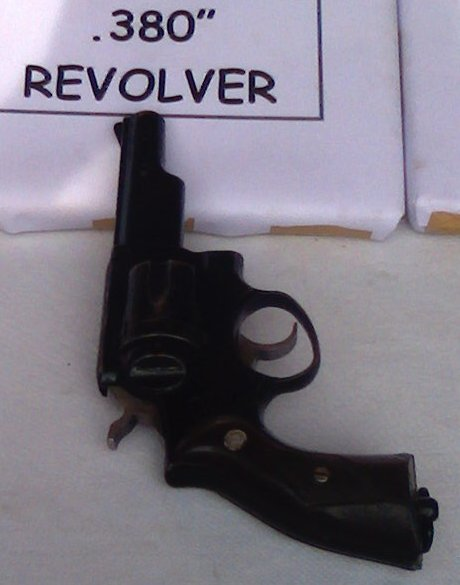 Tamil nadu police